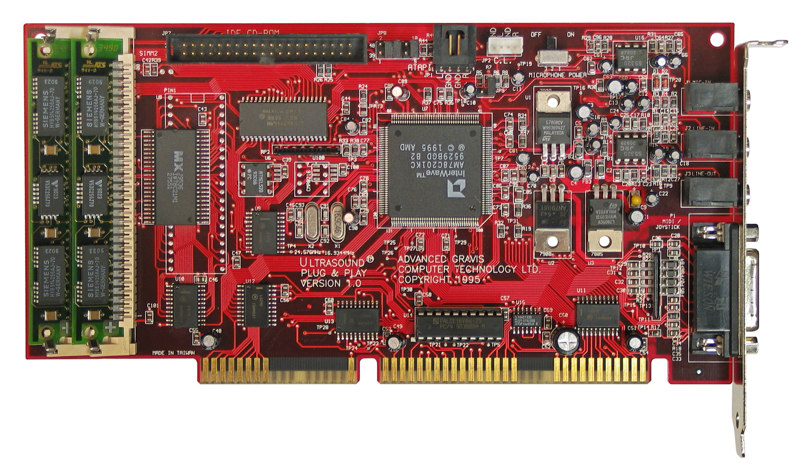 Front of the sound card Gravis Ultrasound Plug & Play (GUS PnP) Pro Version 1.0 by Advanced Gravis Computer Technologies Ltd., developped in 1995.